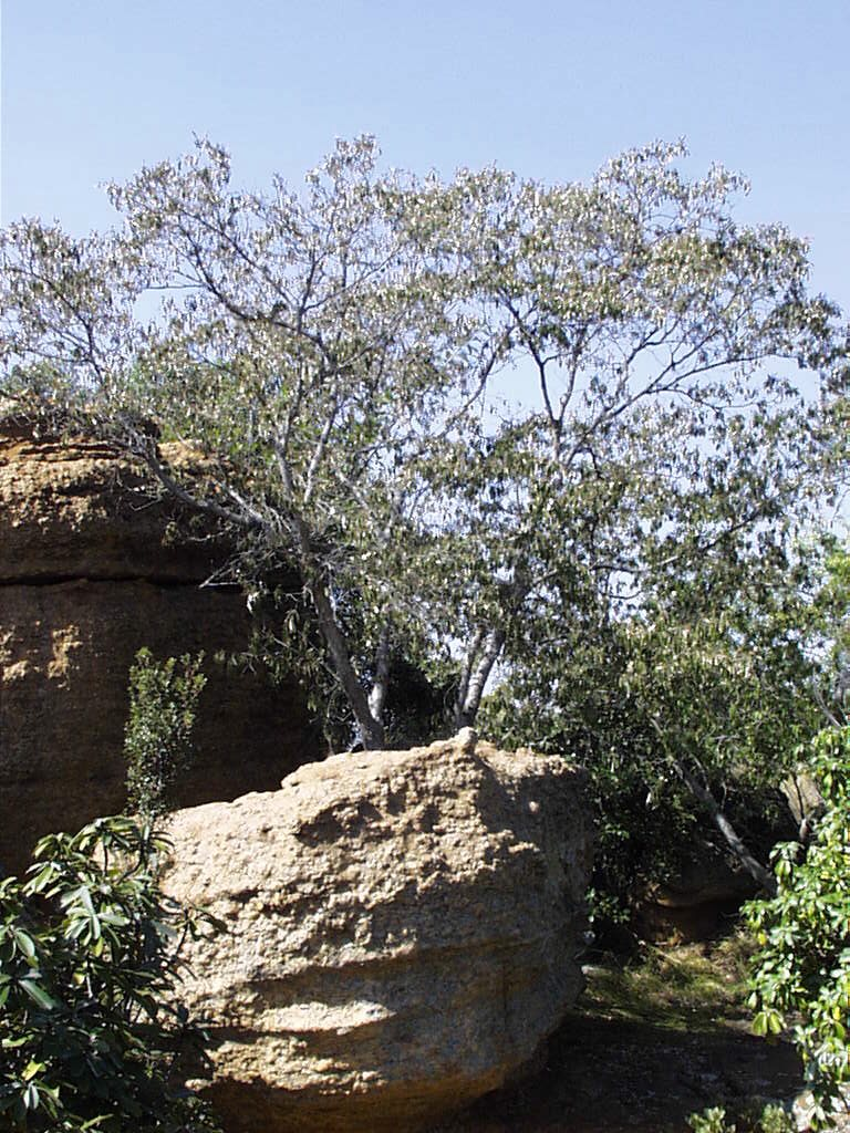 Croton gratissimus at Grootkloof near Sparkling Waters, Magaliesberg, South Africa